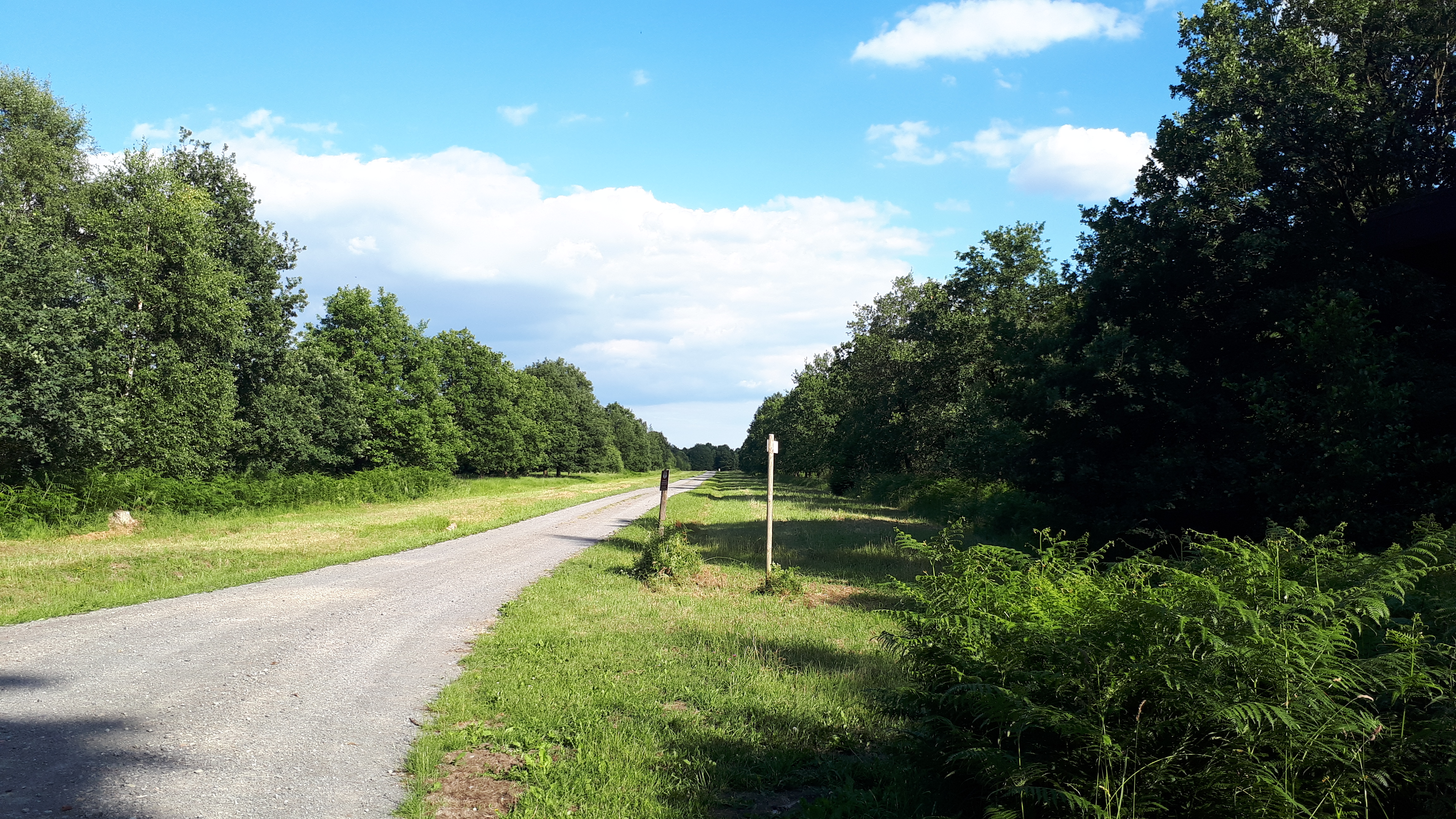 A forest road alongside the natural burial grave sites in the Reinhardswald Forest, Hesse, Germany